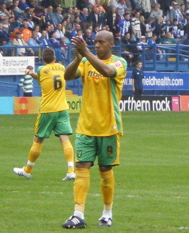 Dion Dublin's final game for Norwich City at Sheffield Wednesday